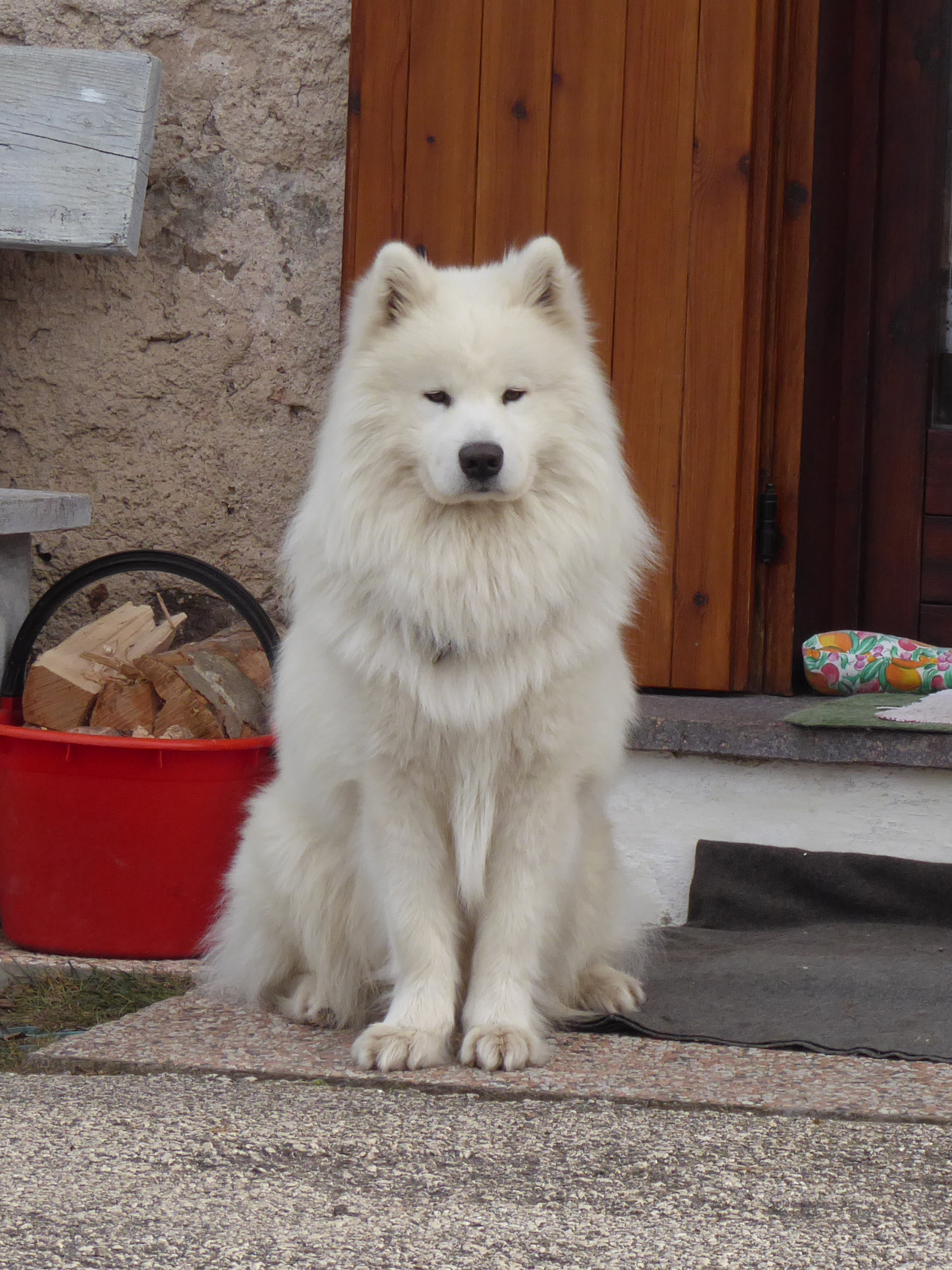 A (samoyed?) dog photographed in Cané (Baselga di Piné, Trentino, Italy)